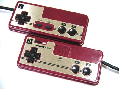 Famicom controllers.